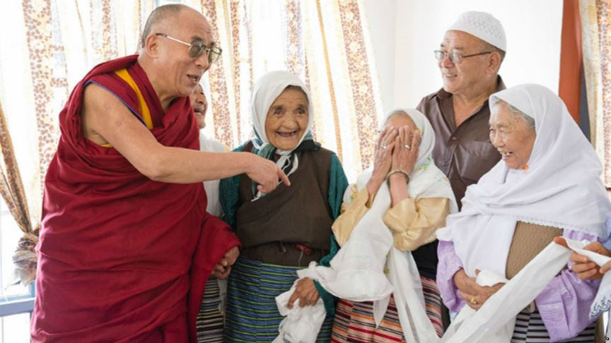 A large number of Tibetans Muslims who fled Tibet are now settled in Kashmir, one of the nearest Islamic regions bordering Tibet. Around 2000 Tibetan Muslims currently reside in the Kashmir valley, the majority of whom live and work around in Srinagar, where the Dalai Lama is currently visiting. The Dalai Lama first met with the Srinagar Tibetan Muslim community in 1975 and later again in 1988 and has continued to keep in touch with the situation of Tibetan Muslims who have a distinct identity as a Kashmiri and Tibetan.